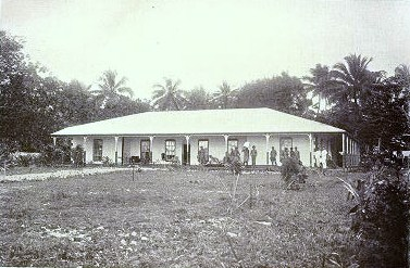 Large stone Methodist mission house, Satupa'itea, Samoa, circa 1908